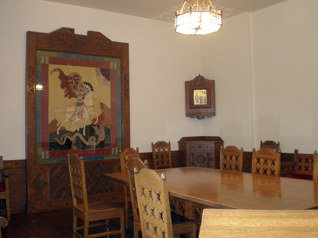 Russian Nationality Room at the University of Pittsburgh